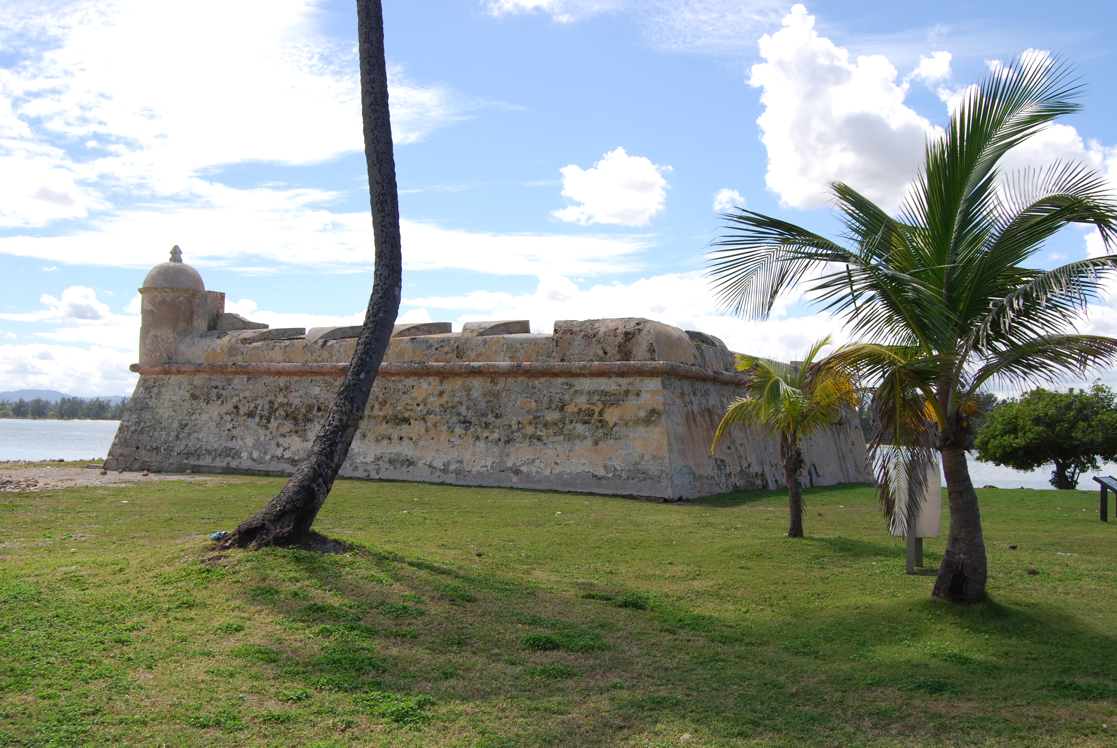 Fortín San Juan de la Cruz, also known as El Cañuelo, a component of San Juan National Historic Site located on Isla de Cabras in Toa Baja municipality, Puerto Rico.